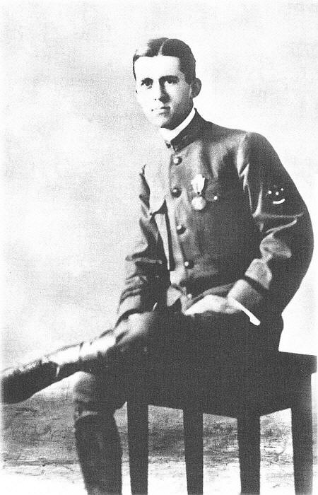 E. Urner Goodman c. 1917, shortly before World War I.